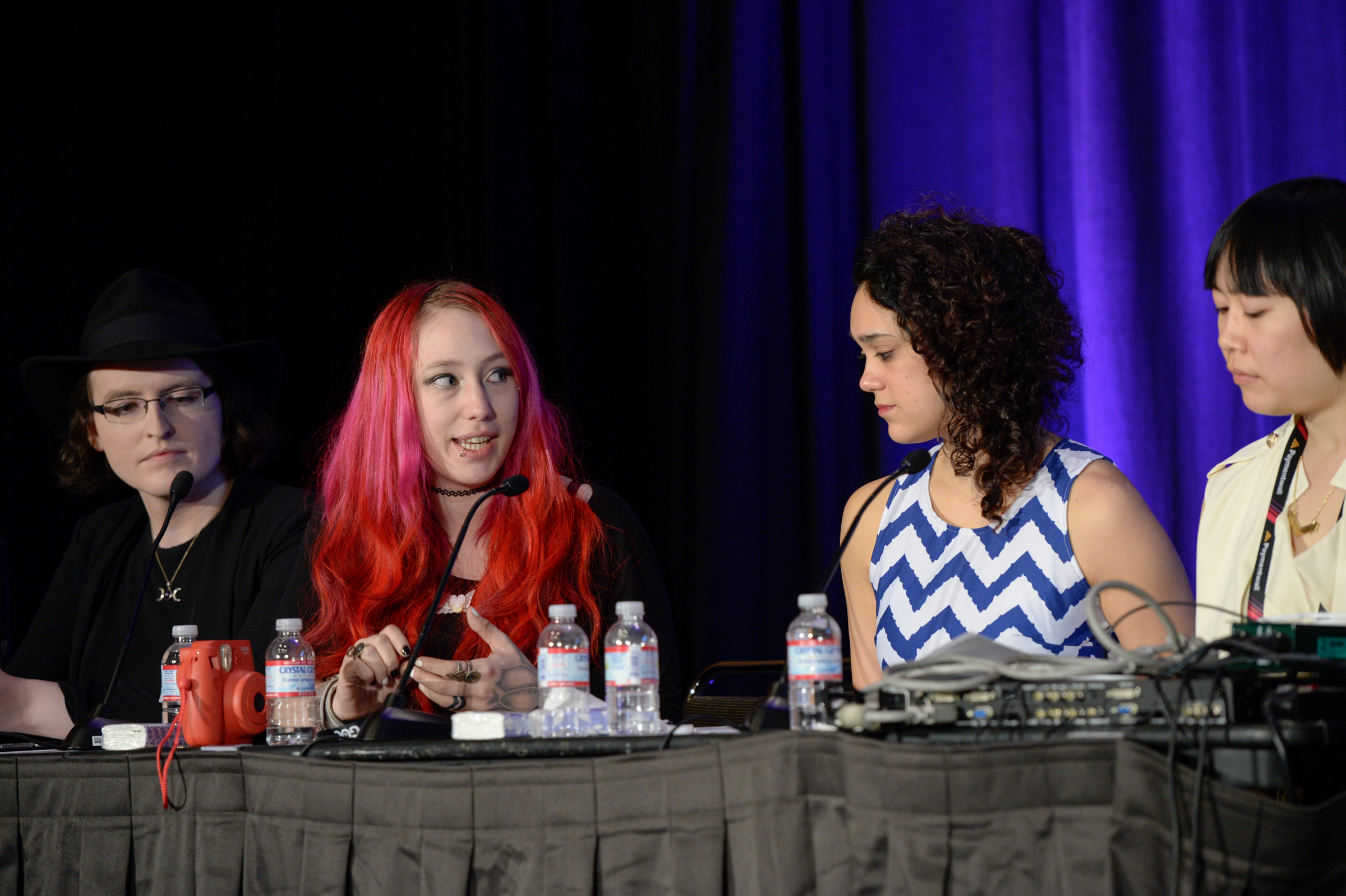 Ripple Effect: How Women-in-Games Initiatives Make a Difference Stephanie Fisher | Researcher, York University Sagan Yee | Executive Director, Hand Eye Society Gemma Thomson | Chairperson, Diversi Rebecca Cohen-Palacios | Co-founder, Pixelles Zoe Quinn | Co-Founder, Crash Override Network Location: Room 3005, West Hall Date: Thursday, March 17 Time: 10:00am - 11:00am